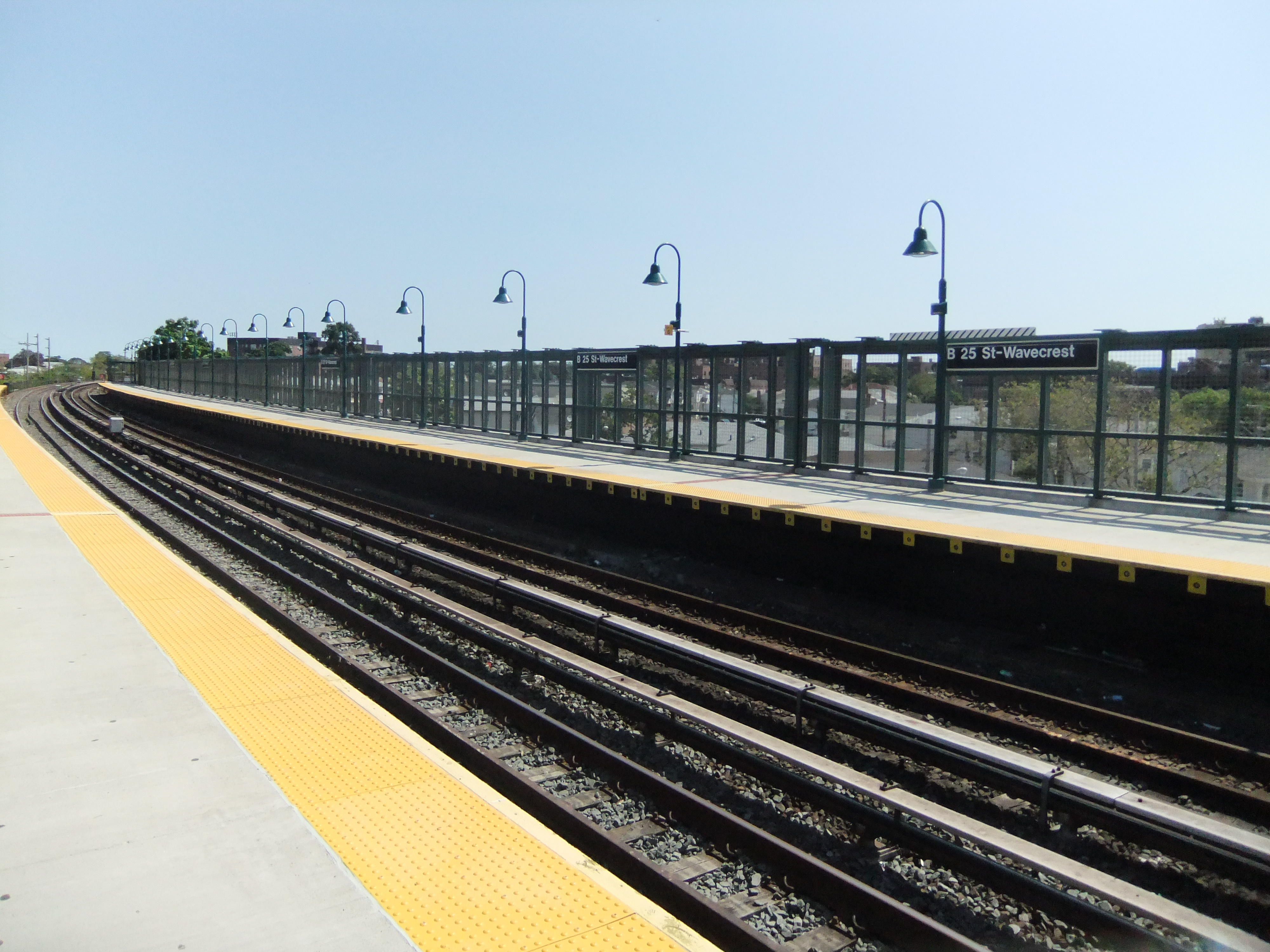 North side of Mott Av bound platform at Beach 25th Street - Wavecrest.